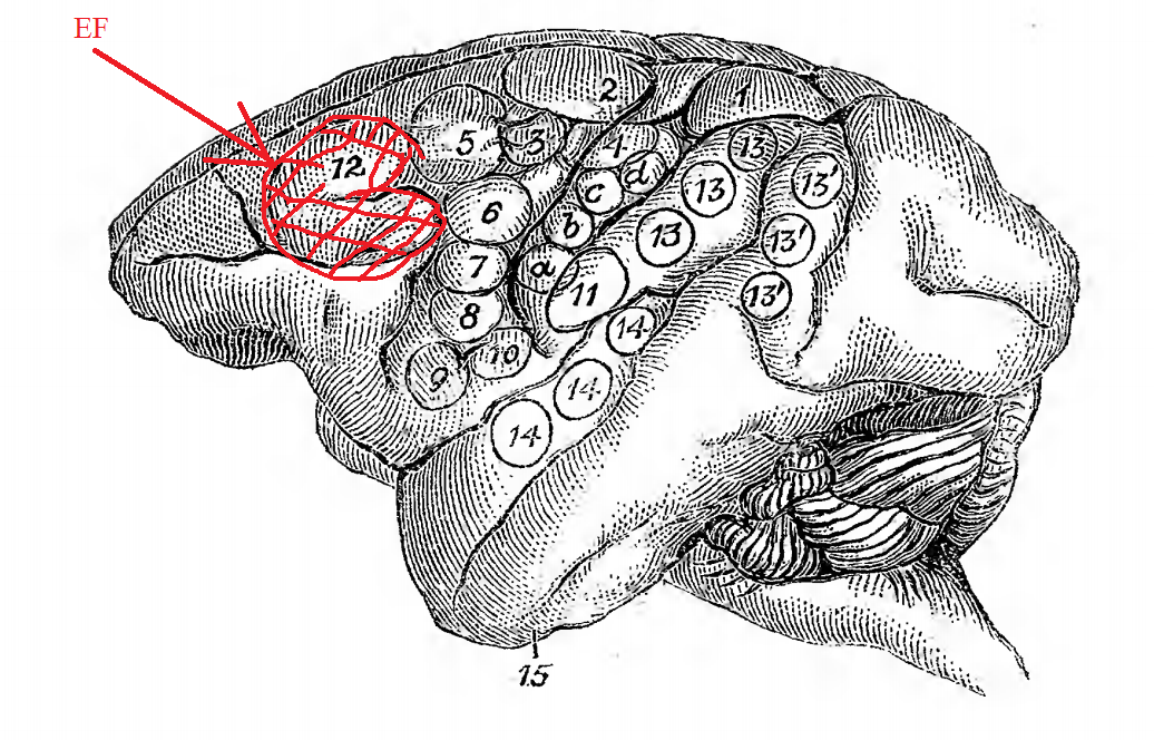 Pictured is Dr. David Ferrier's original brain map which he created by experimenting on monkeys in the late 1800s in the UK. The part I have highlighted is the part he attributed to causing eye and head movements upon electrical stimulation. The classic paper can be found here for anyone interested